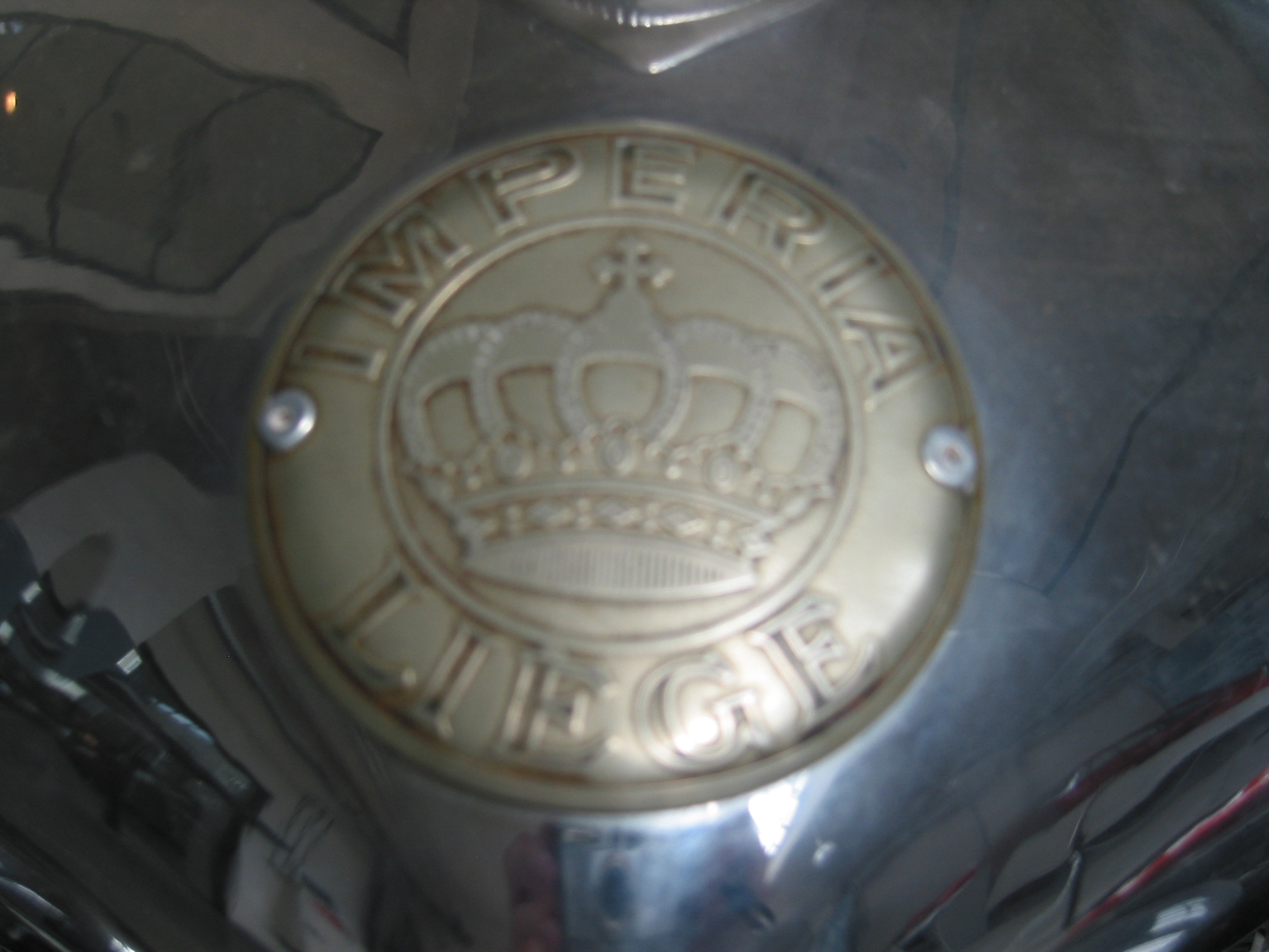 Emblem of Imperia 1930